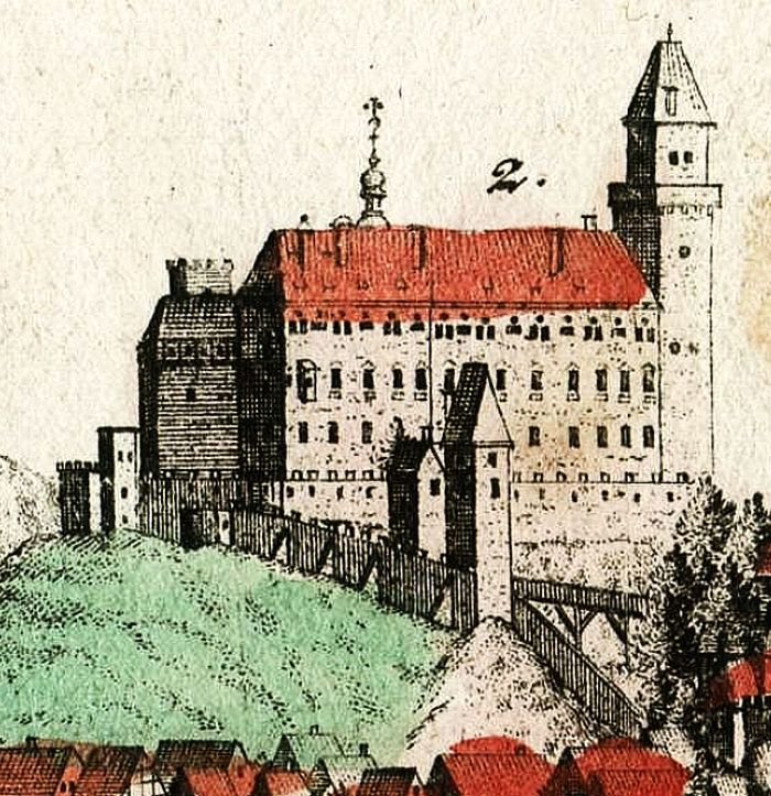 Otmuchów Castle